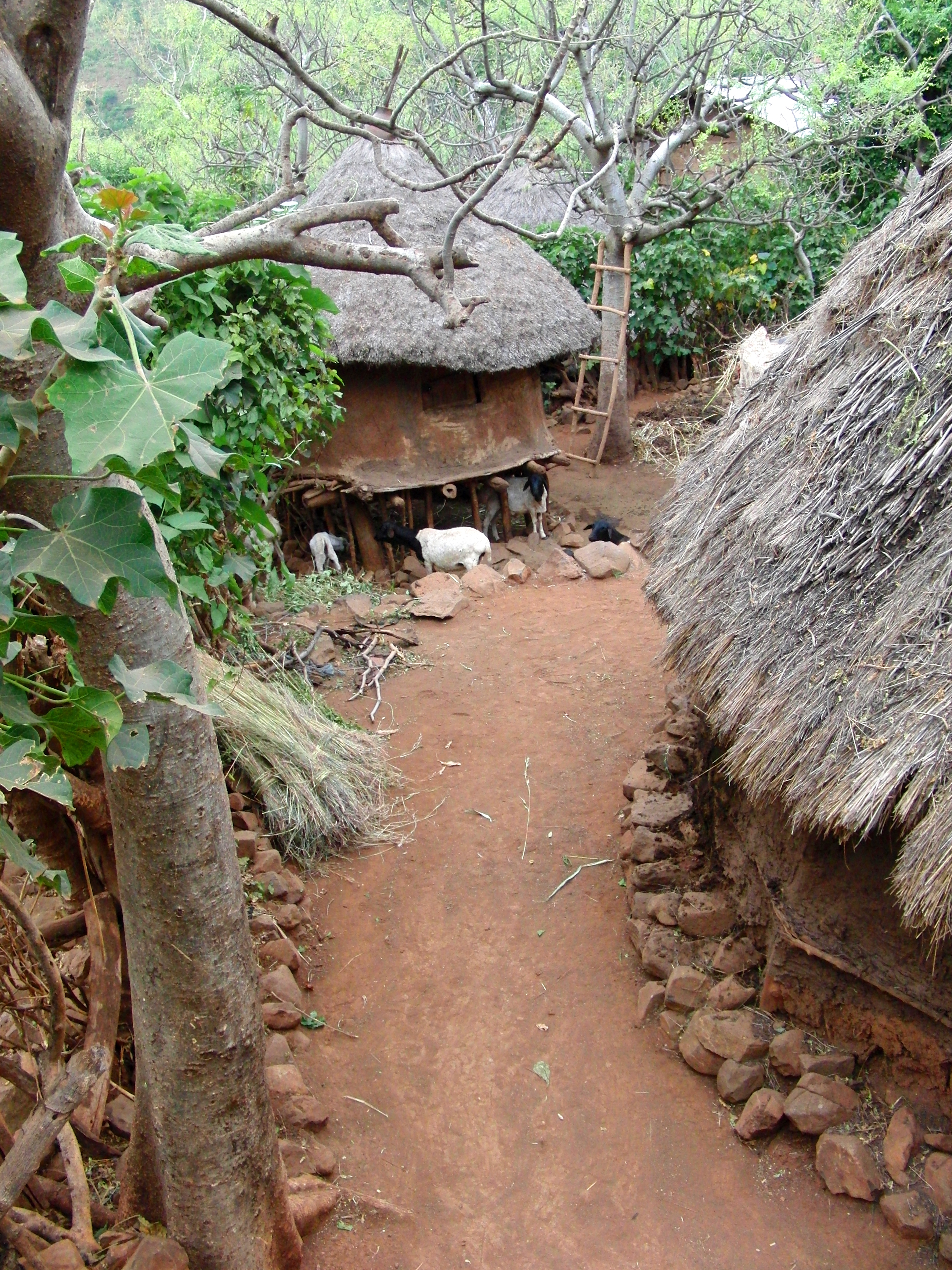 Path in the Konso village in Southwest Ethiopia.